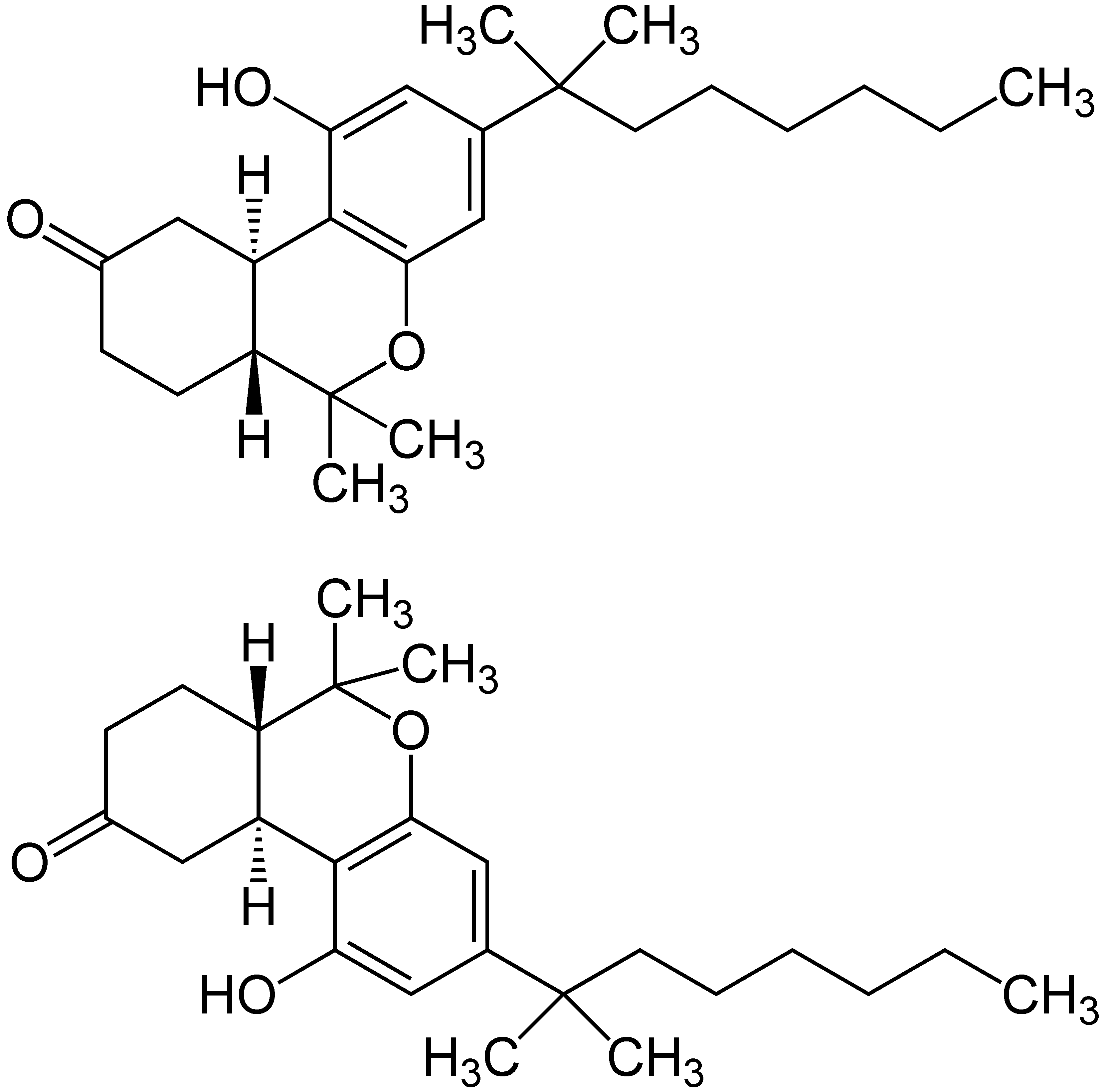 Enantiomers of Nabilone